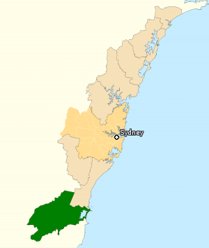 This image incorporates data that is: © Commonwealth of Australia (Australian Electoral Commission) 2009 Division of Throsby 2010